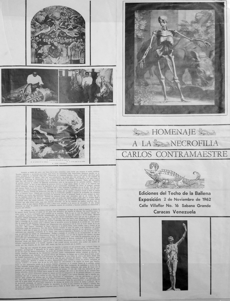 Texto de sala